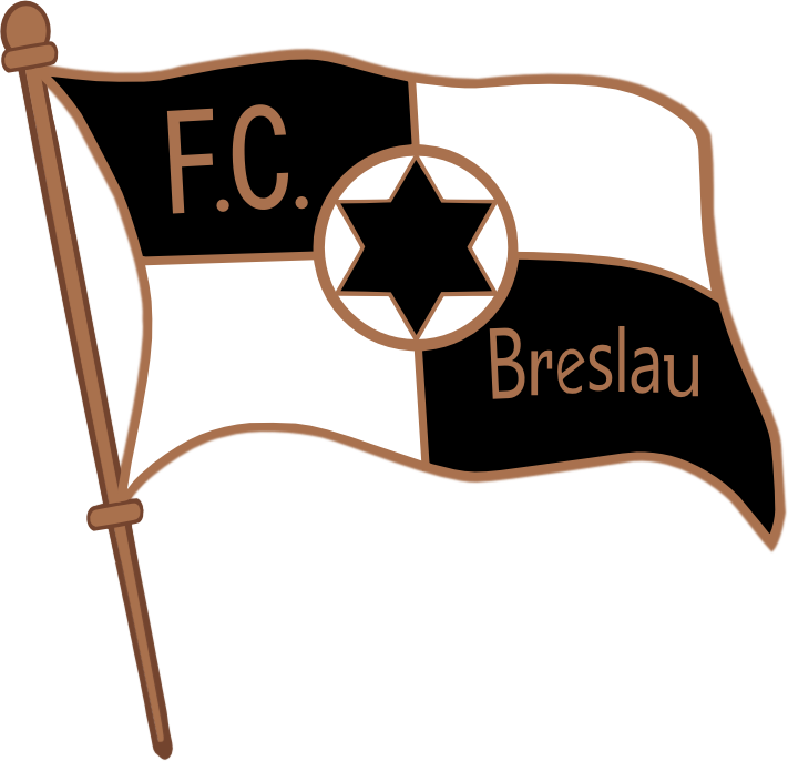 Logo of FC Breslau, German football team.